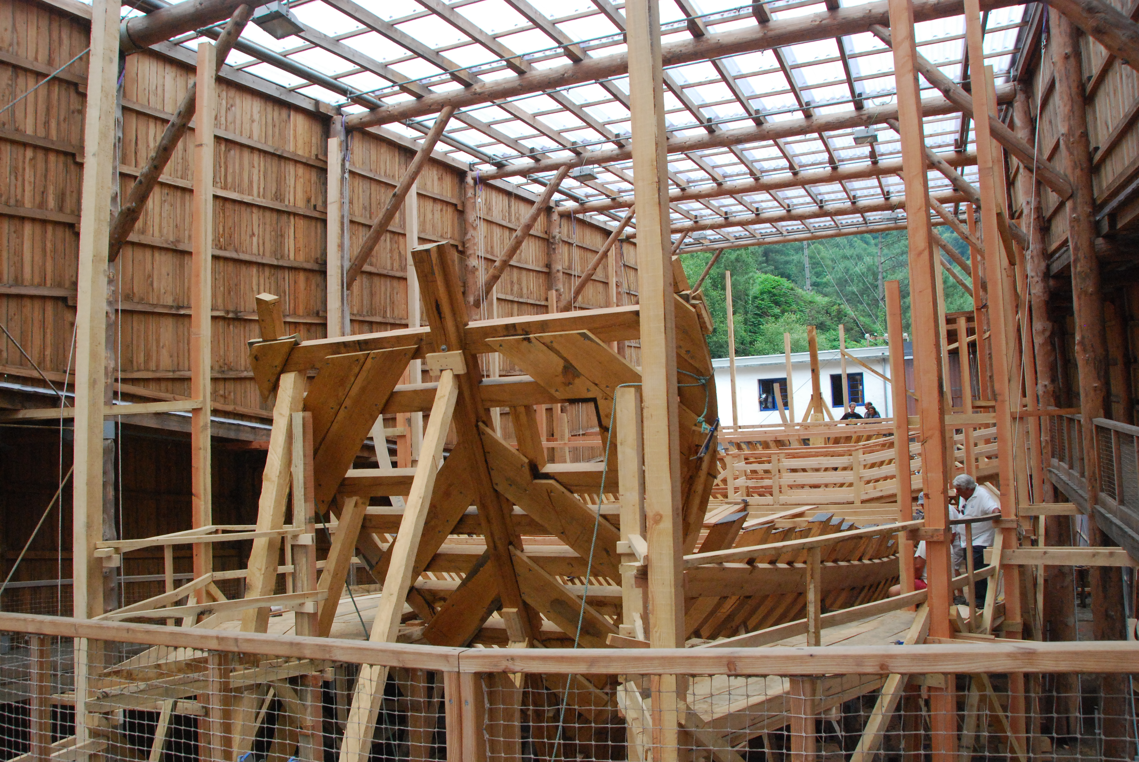 Albaola